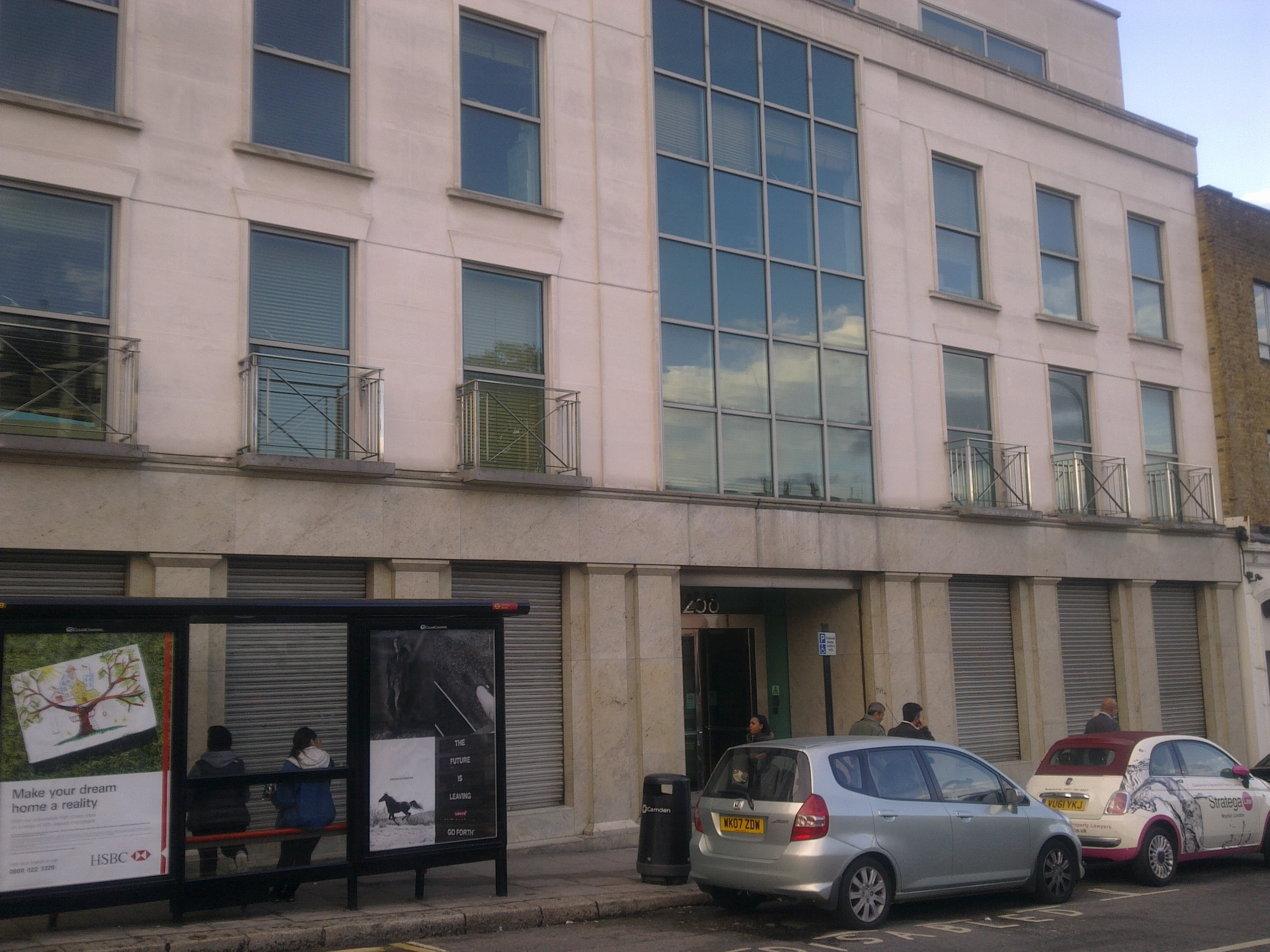 Embassy of Guinea, London